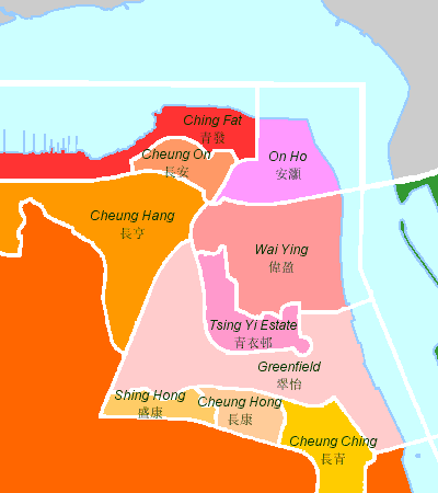 Cropped constituencty map showing estate locations